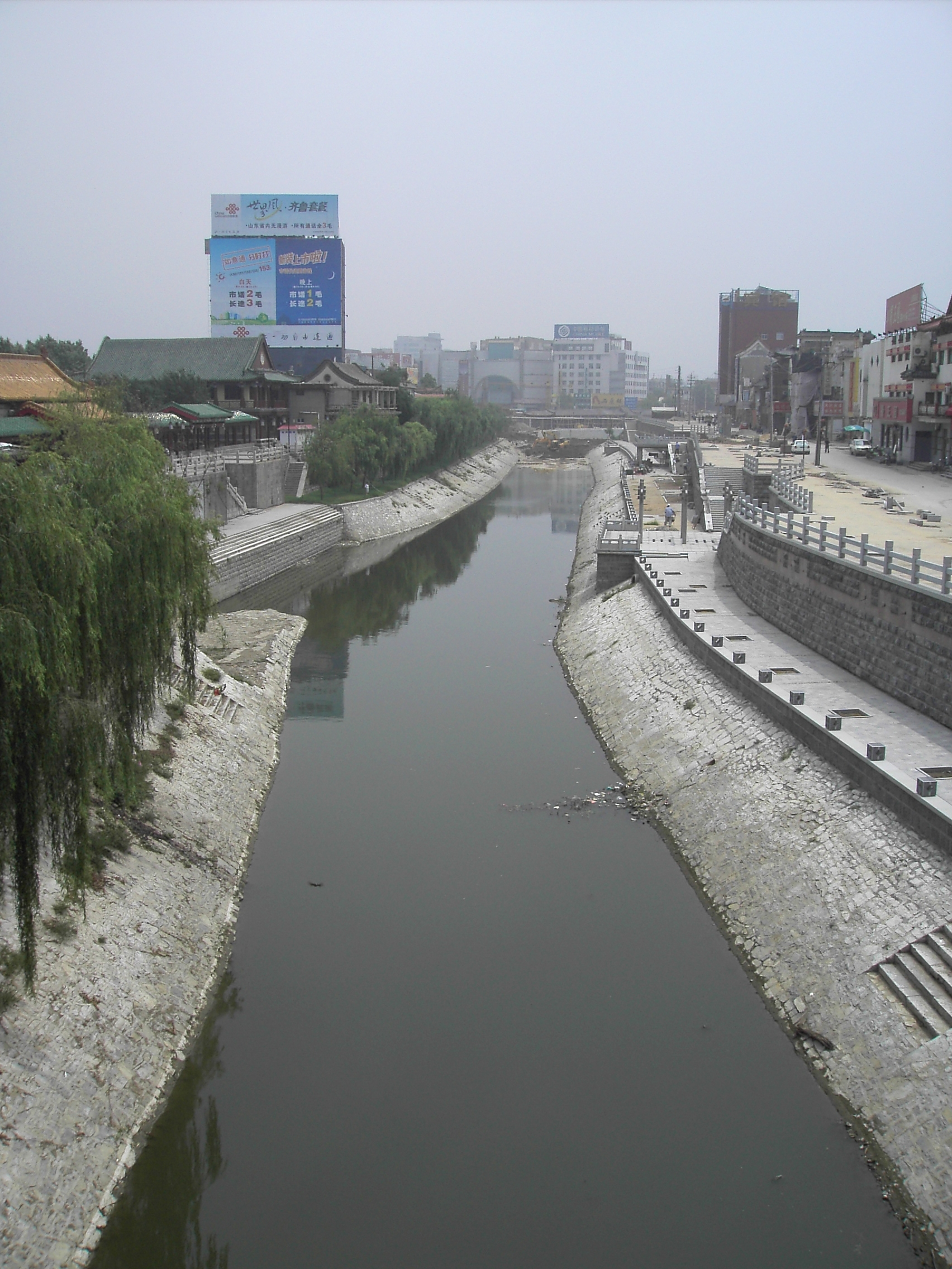 Author - Tomtom08, Spring 2006, user's own work.